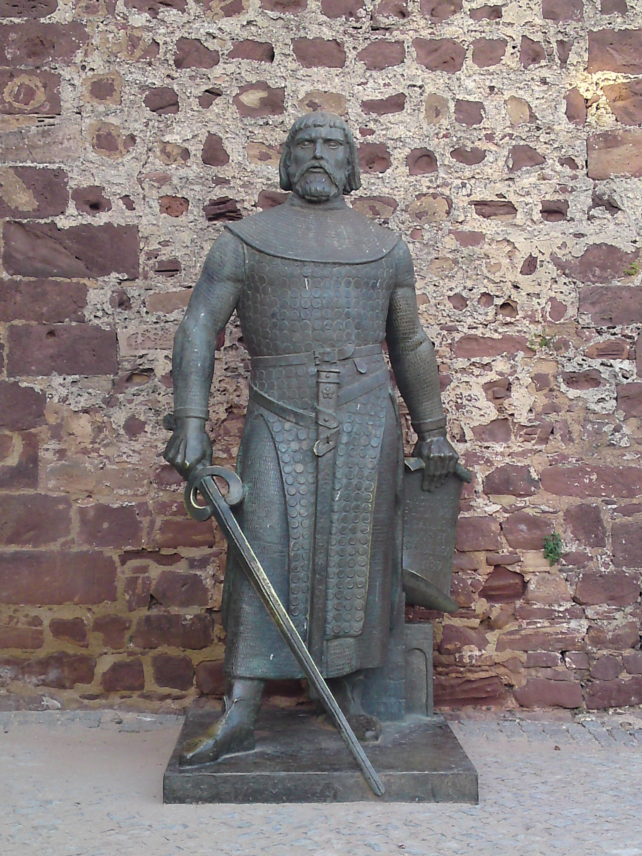 Statue of Sancho I of Portugal, Silves, Portugal